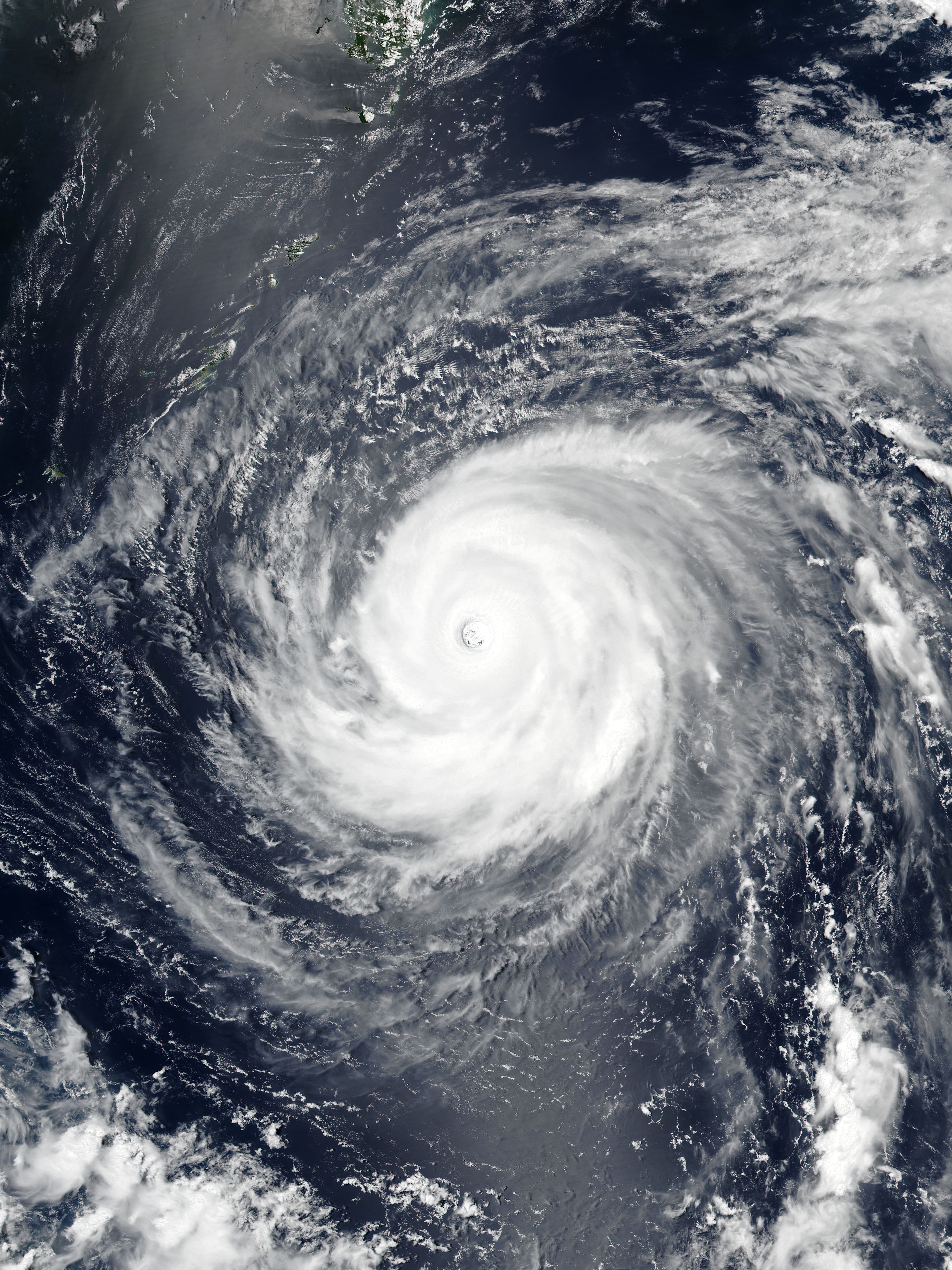 Typhoon Maria approaching the Yaeyama Islands at peak intensity on July 9, 2018.